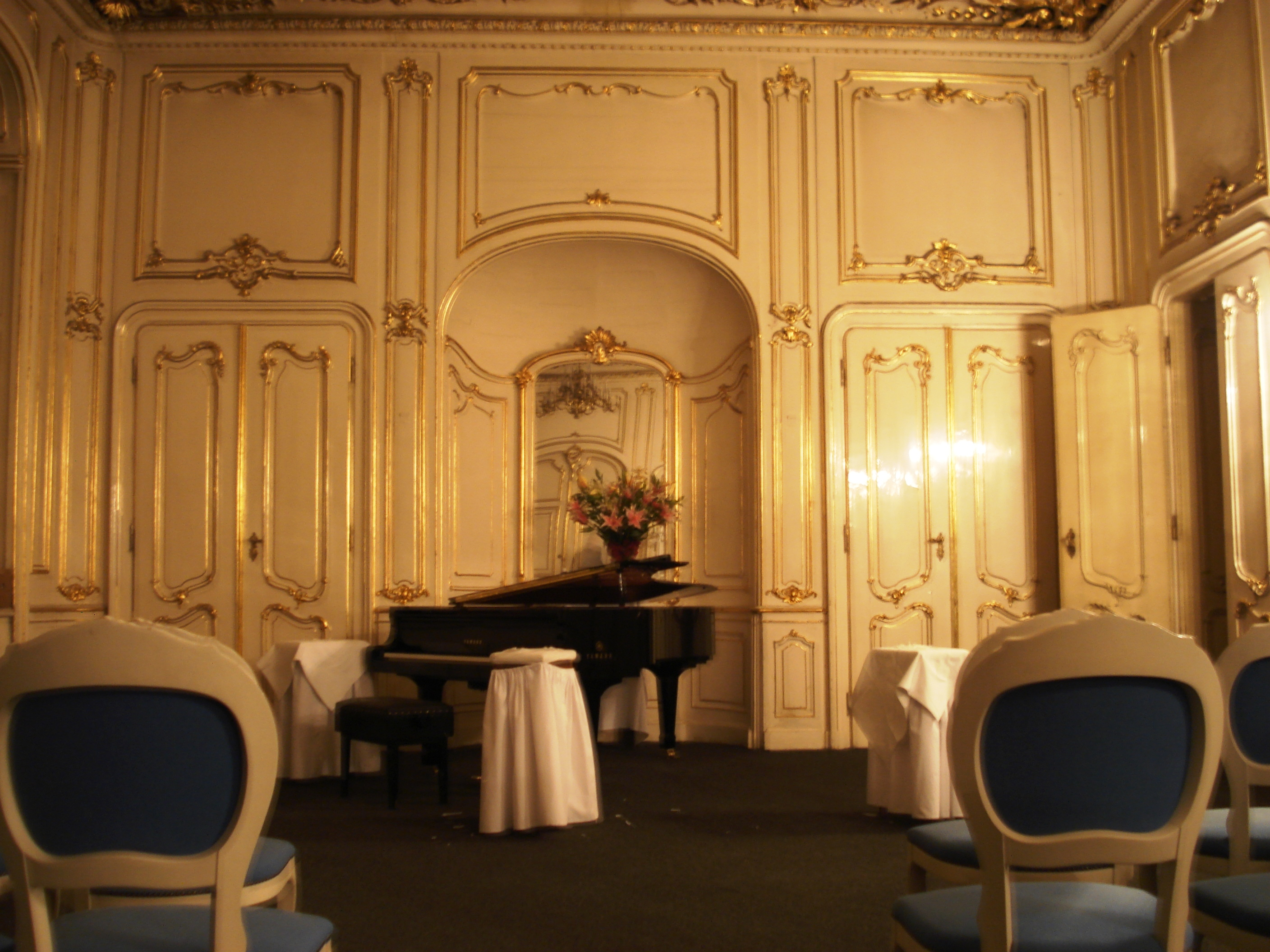 concert hall of Palffy Palac in Prague. Now conservatory of music